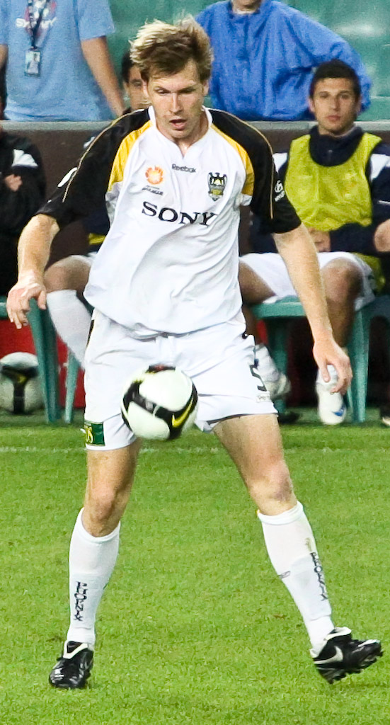 Karl Dodd playing for Wellington Phoenix against Sydney FC in round 11 of the 08/09 A-League.